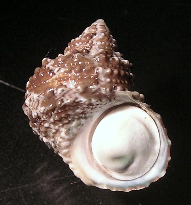 Turbo (Senectus) castanea Gmelin, 1791 , a turban snail from the family Turbinidae; Florida